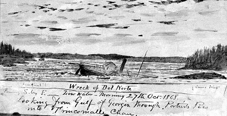 Original watercolor . Handwritten caption on image: Wreck of the Del Norte. Low water, morning 27th Oct. 1868. Looking from Gulf of Georgia through Por[illeg.] Pass into Trimcomalle Chan. Subjects (LCSH): Del Norte (Ship); Ships--Watercolors; Shipwrecks; Georgia, Strait of